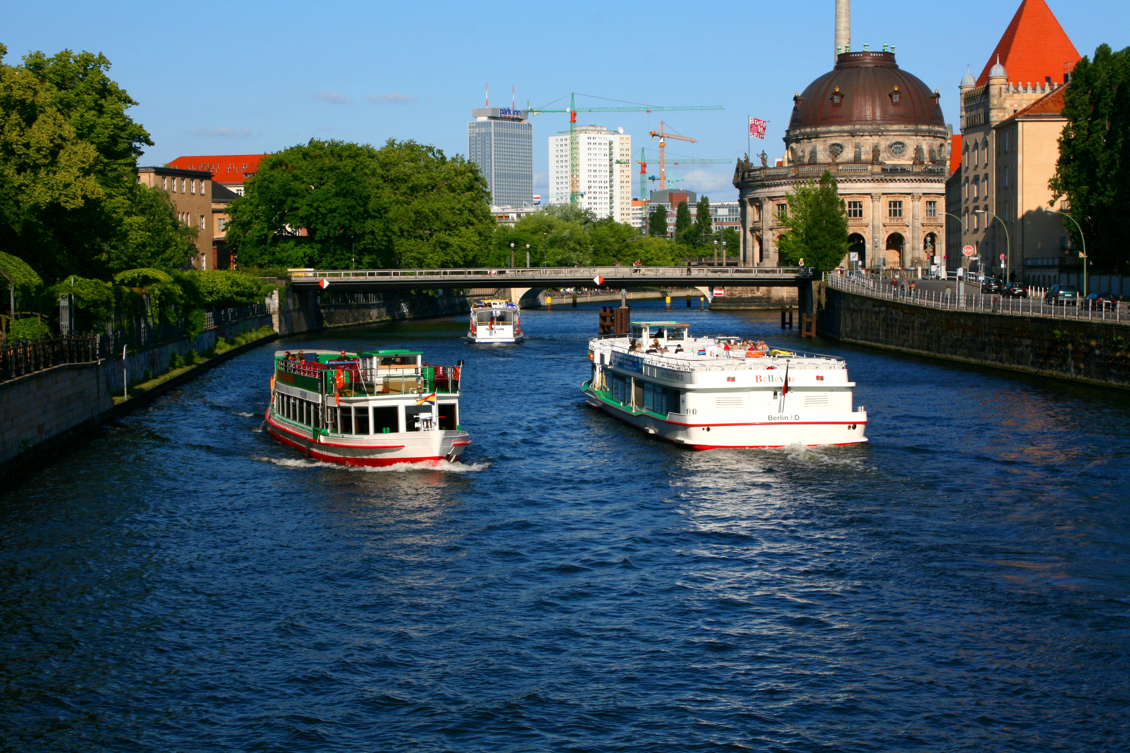 Excursion-boats on the Spree-River in Berlin, in the distance the "Ebertbrücke" and the Bode-Musem on the Museum Island